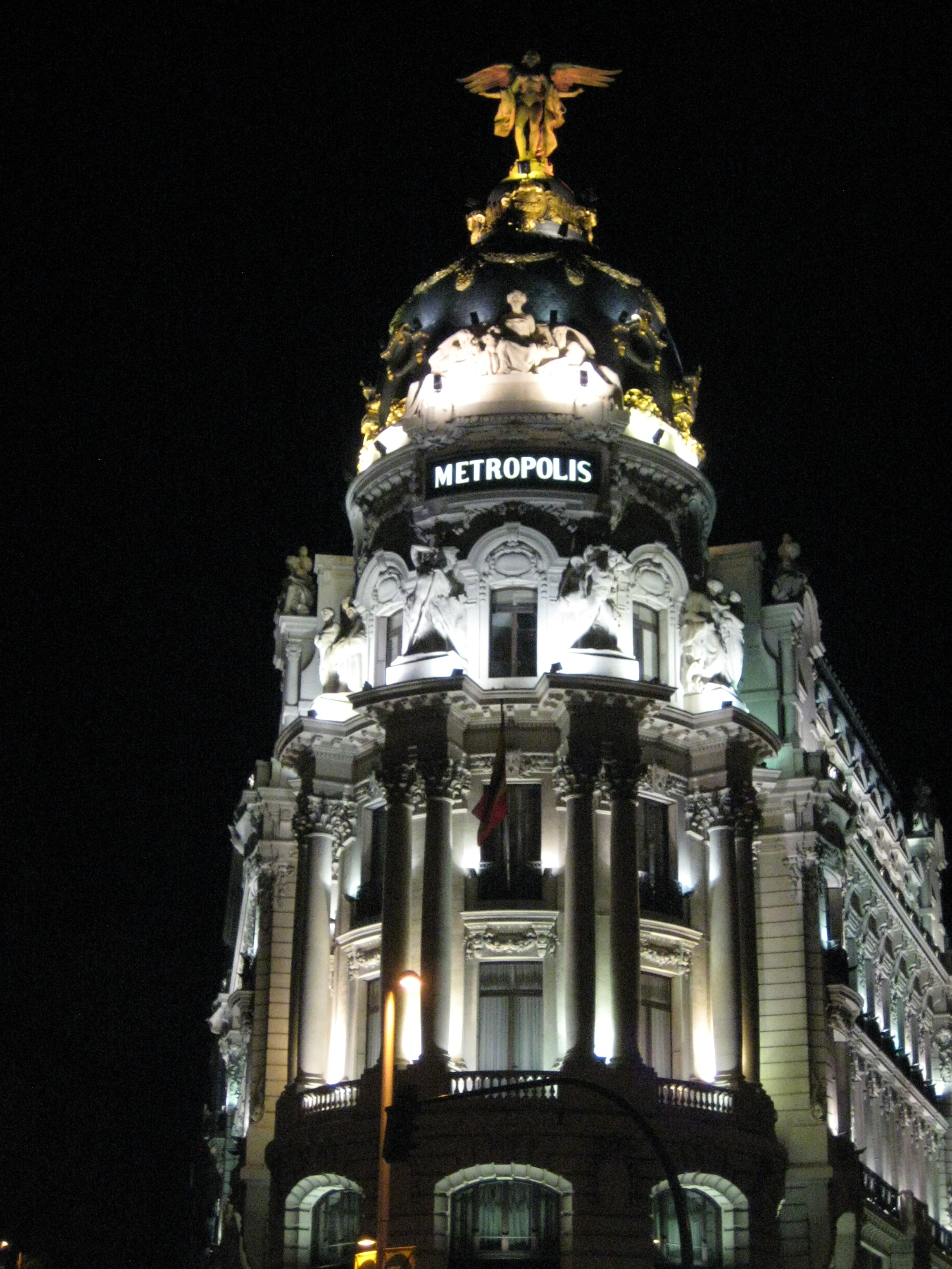 Metropolis Madrid